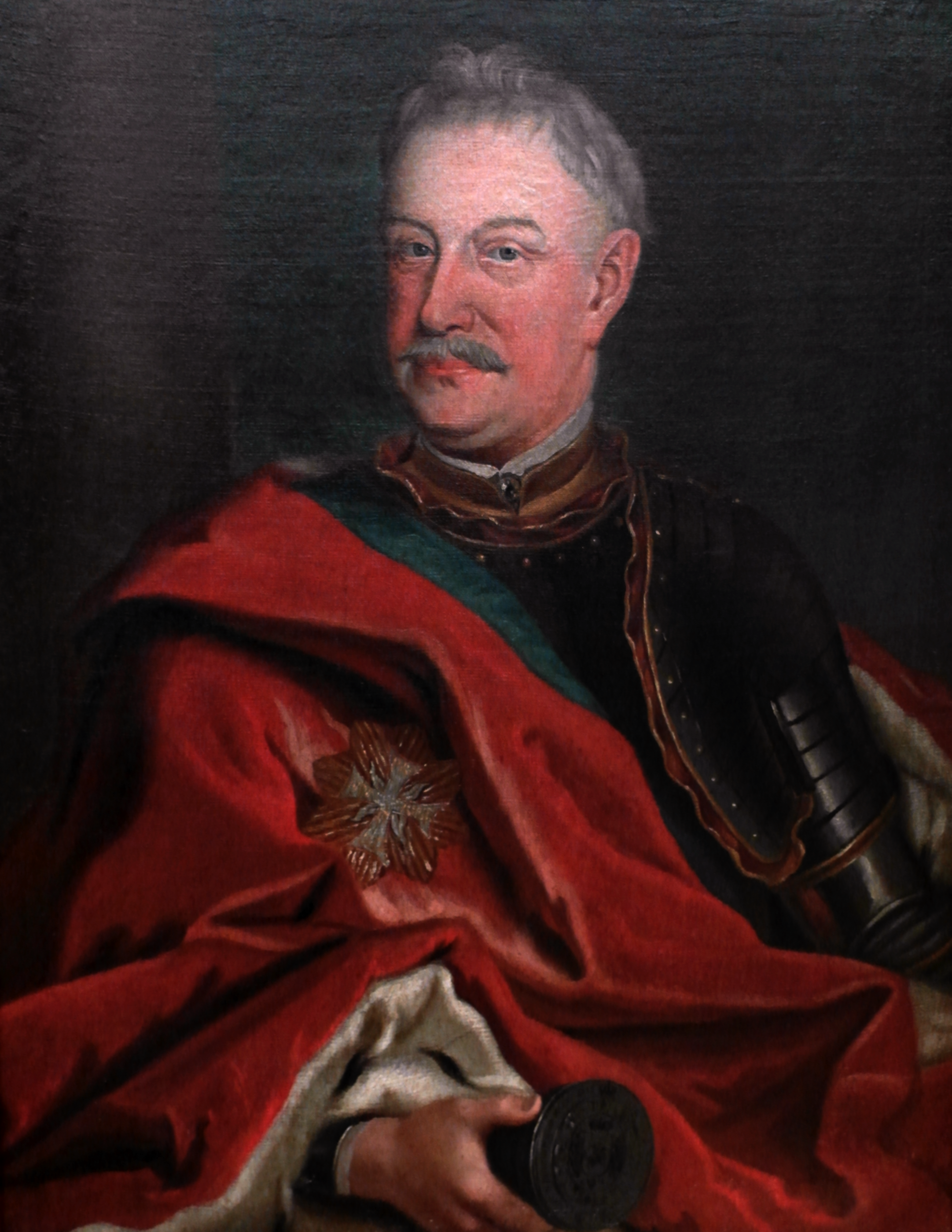 Portrait of Jan Fryderyk Sapieha (1680-1751)